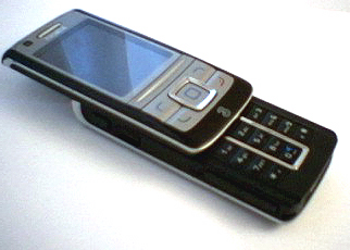 Nokia 6280 mobile phone photograph taken by myself.